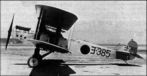 Taken before 1956 and according to Japanese law is considered Public Domain.